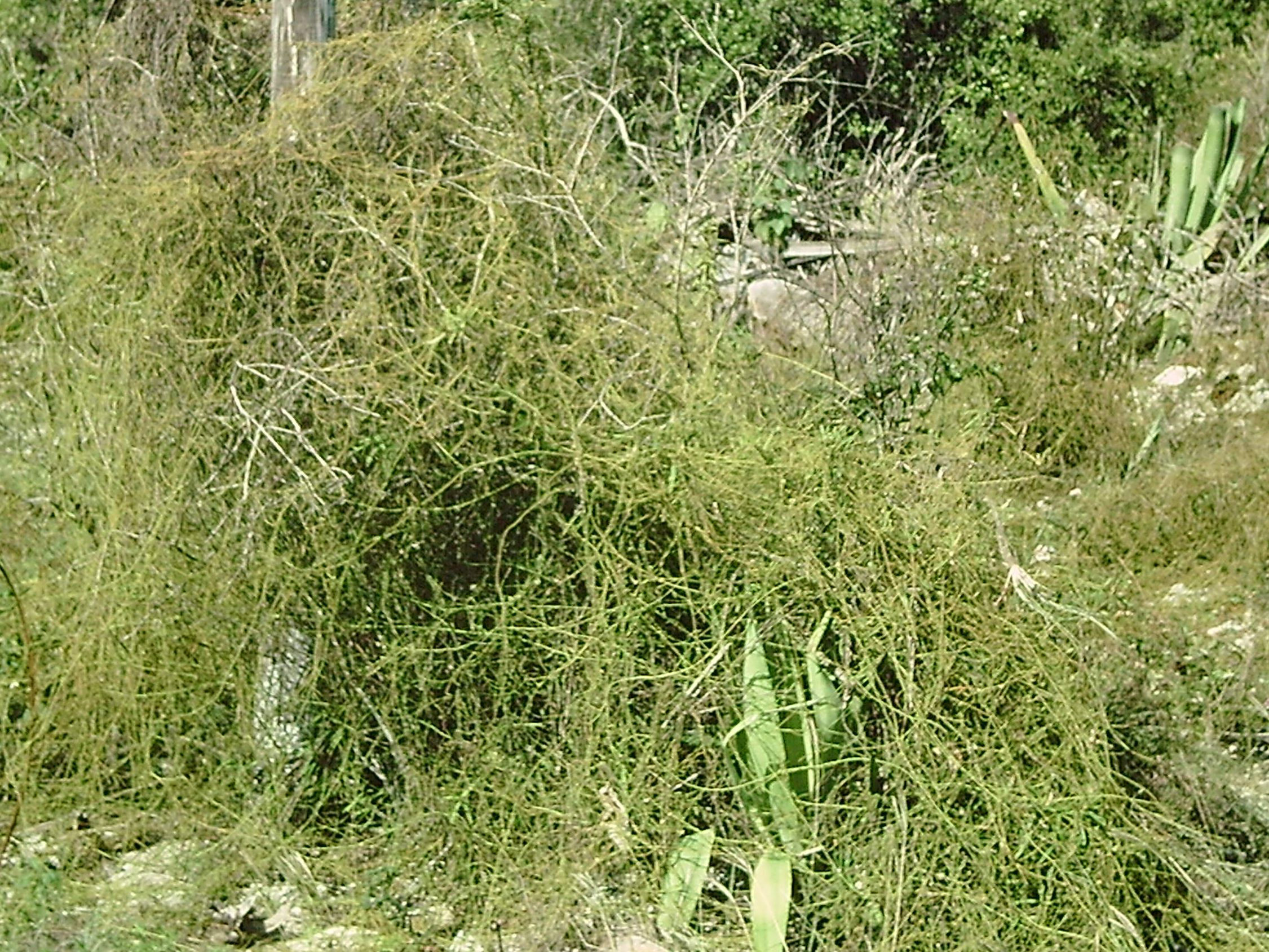 Clump of "Bahamian Love Vine" (Cassytha filiformis) growing in a sunny location in the Bahamas